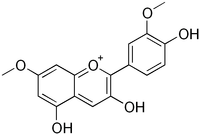 chemical structure of rosinidin